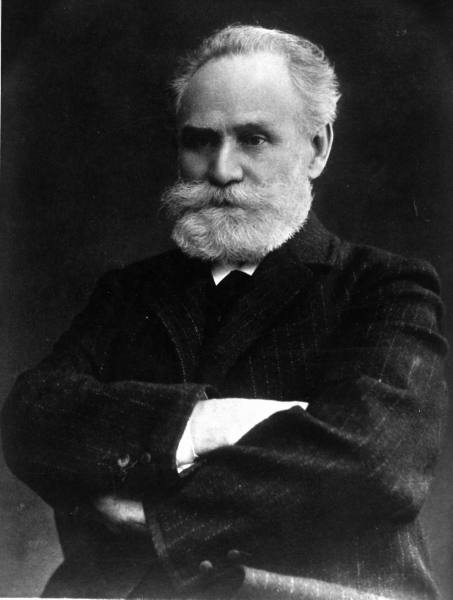 Portrait of Ivan Pavlov, Russian physiologist and experimental psychologist